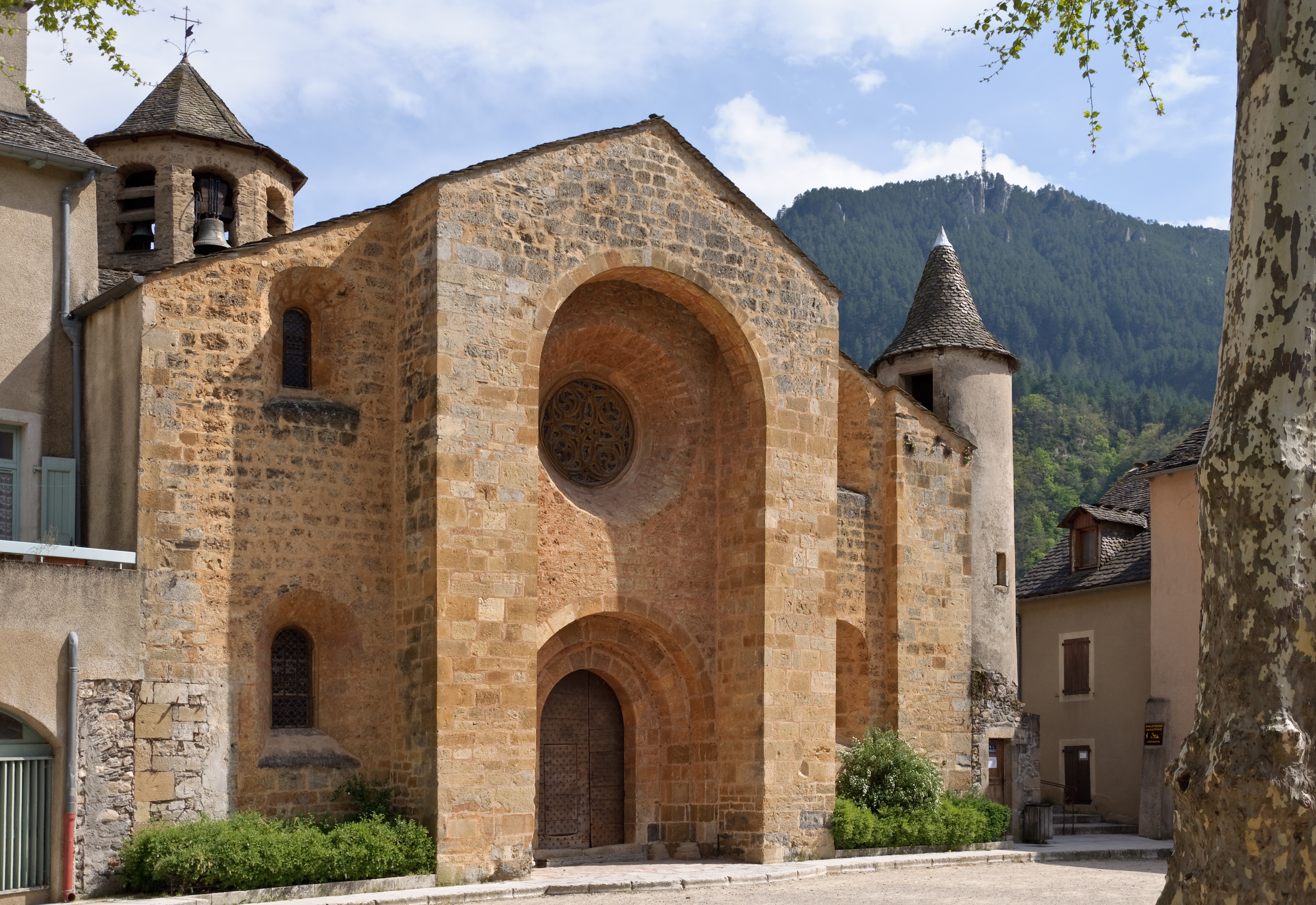 The church (12th-15th century) of Ispagnac, Lozère, France